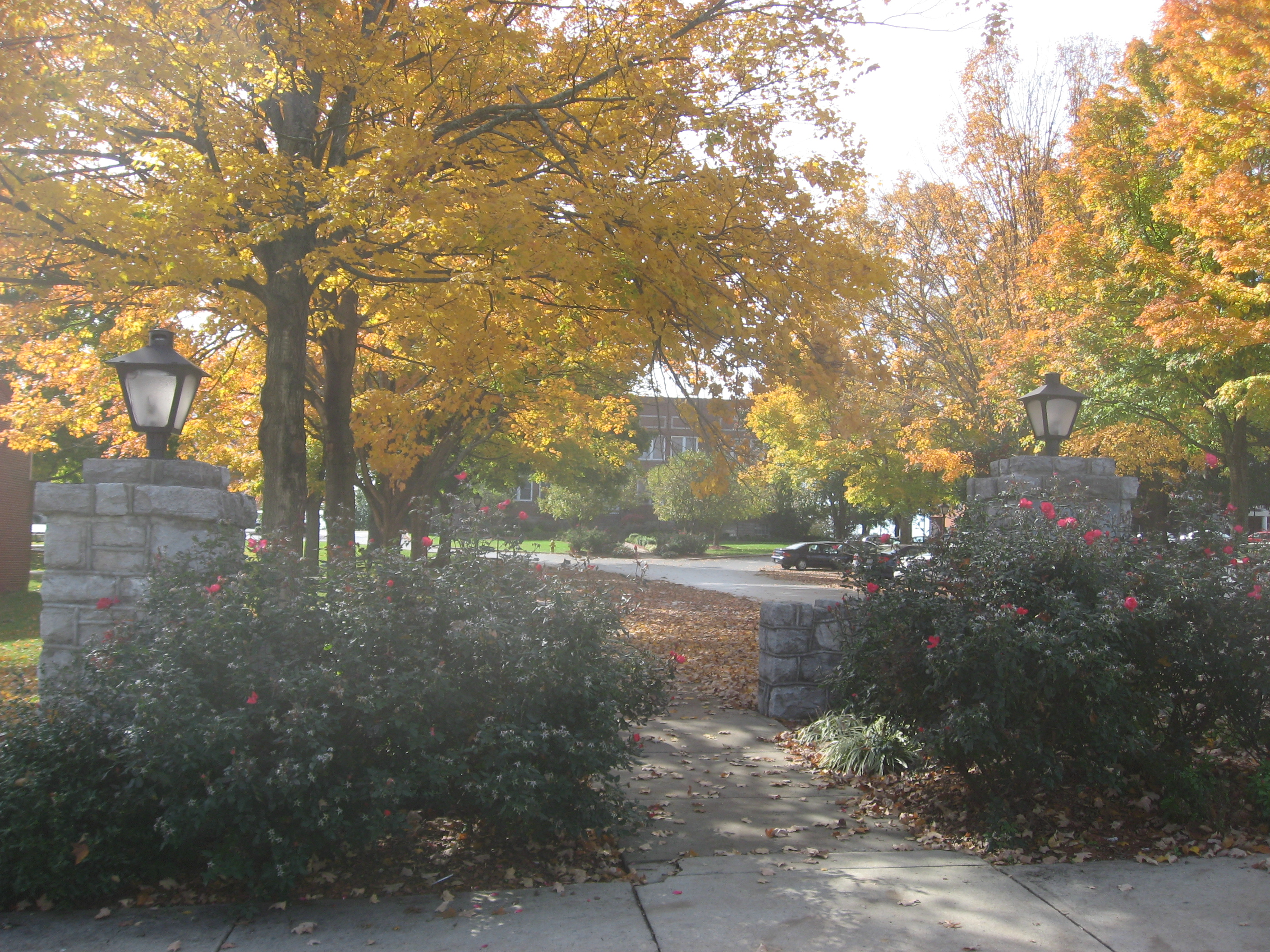 Campbellsville University